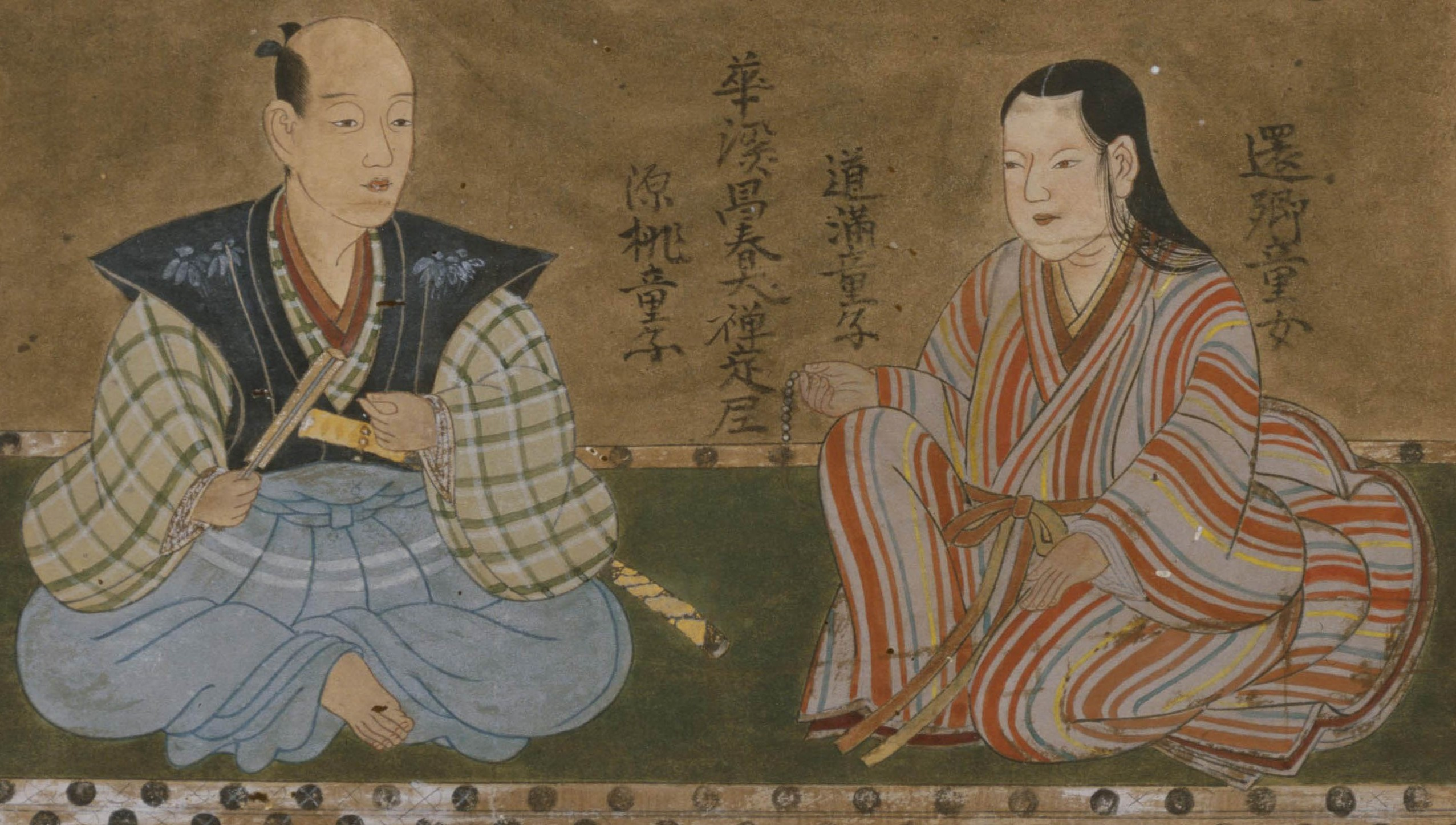 Nagao Masakage and His wife, the biological parents of Uesugi Kagekatsu.